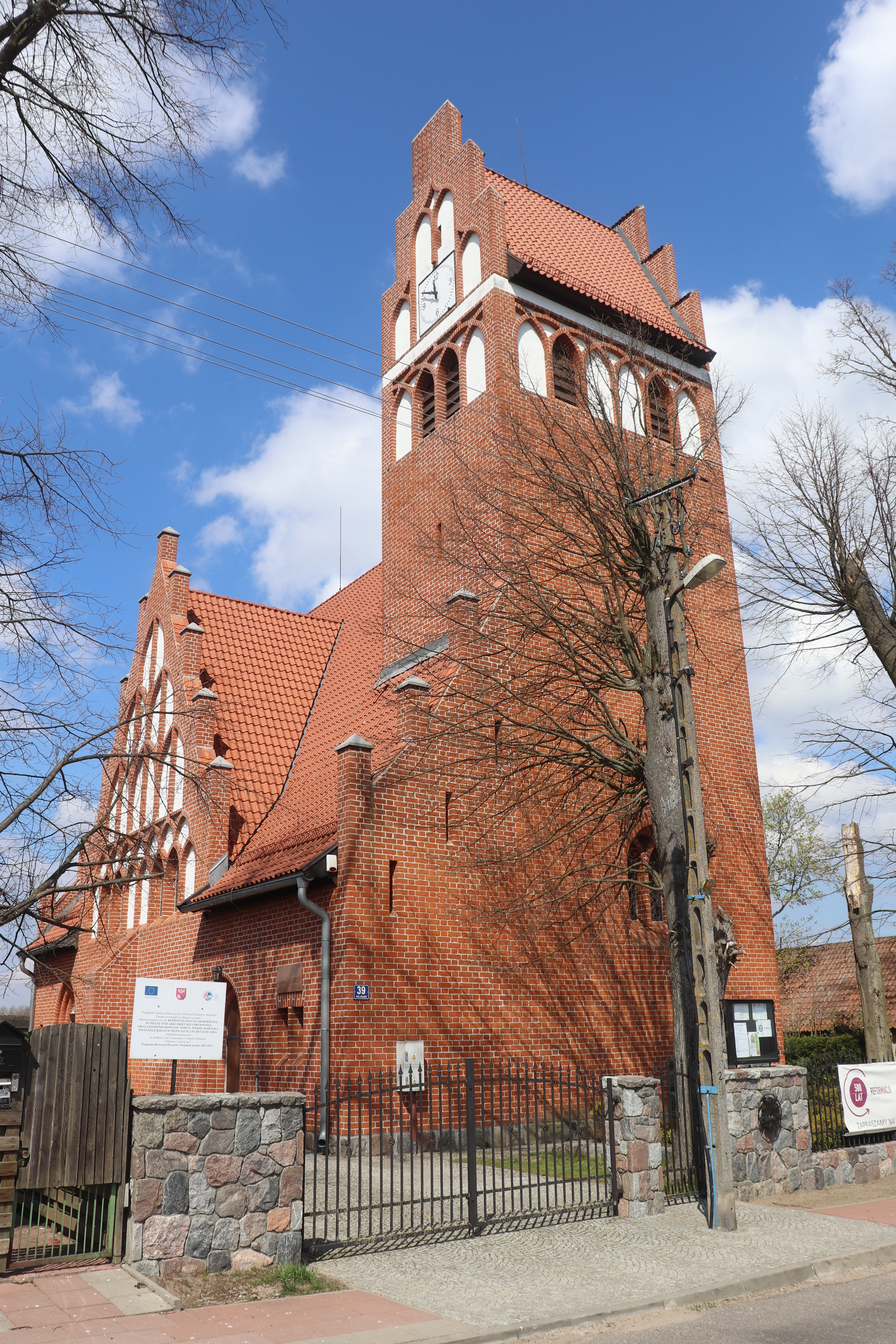 Wejsuny - Lutheran church